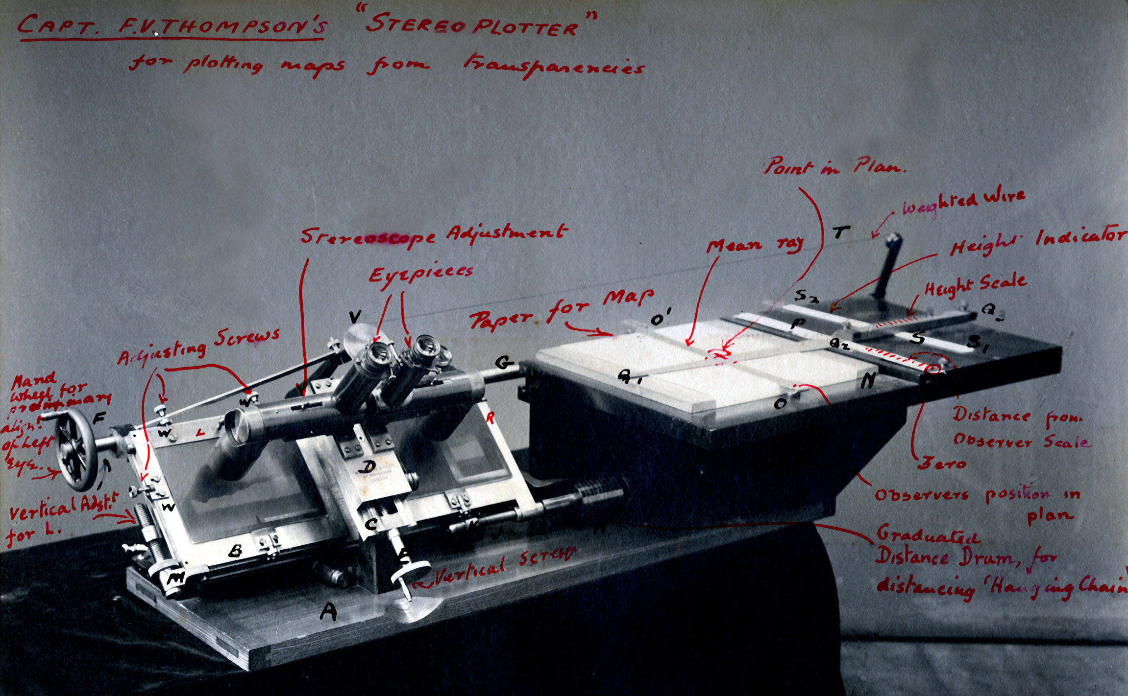 Captain FV Thompson's Stereoplotter, with annotations by Professor Kenneth Mason